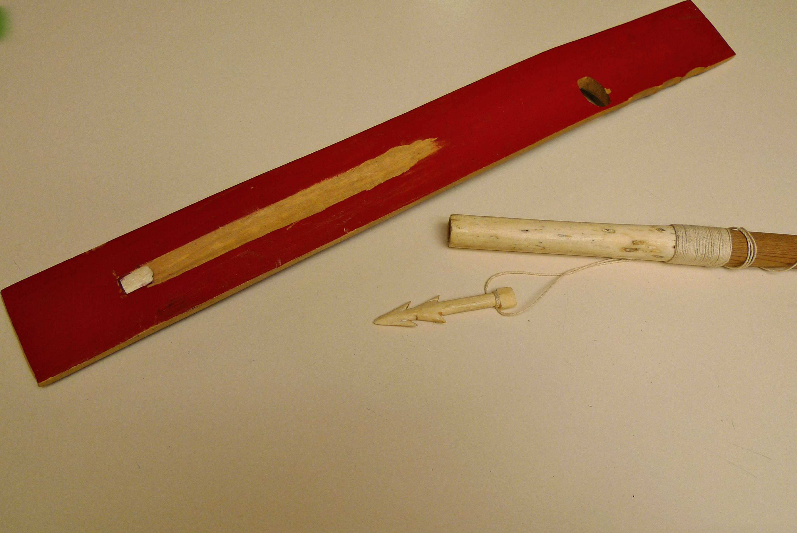 This atlatl was made by Sergie Sovoroff in Nikolski, 1976.